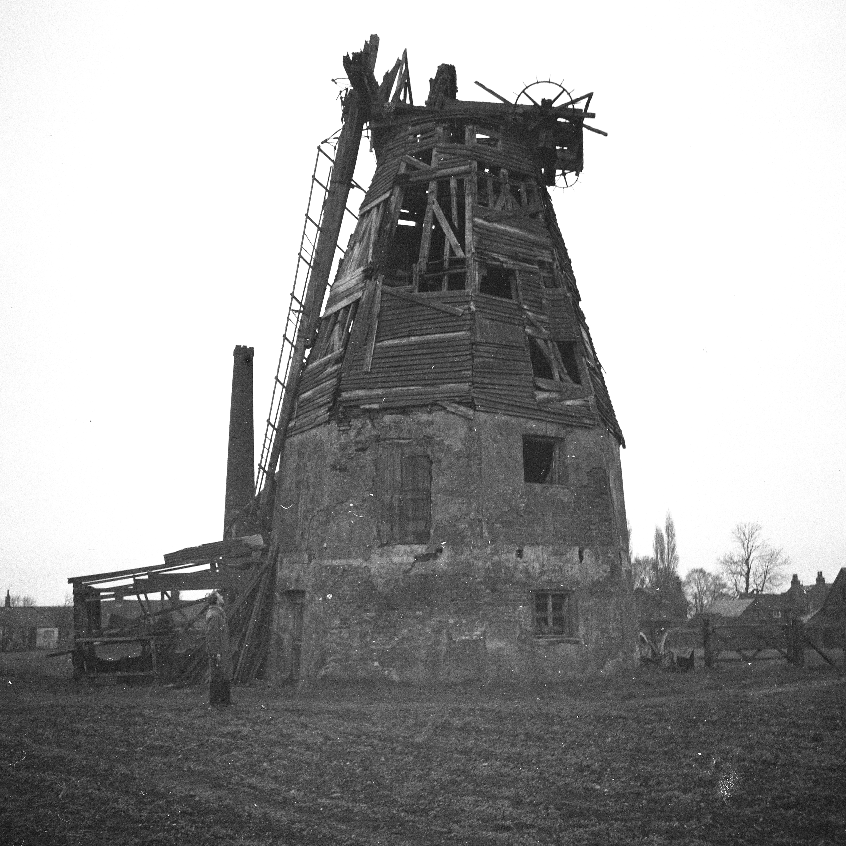 Smock mill at Baker Street, Orsett, Essex, in a ruinous condition in 1964. The chimney is of the steam mill behind it.